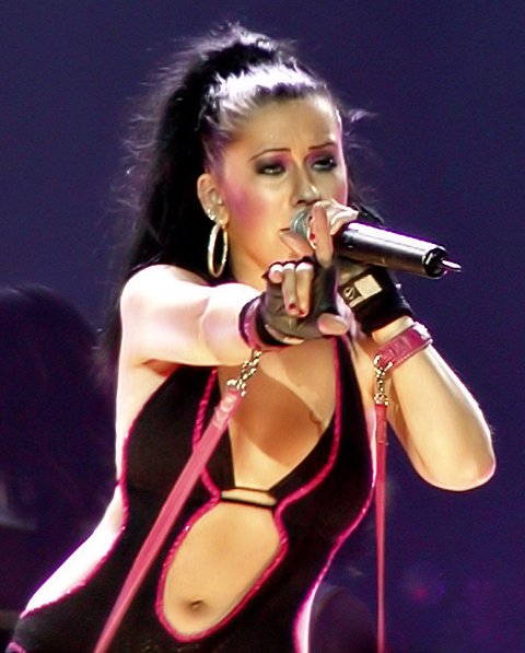 Christina Aguilera performed "Genie in a Bottle" on the Stripped Tour